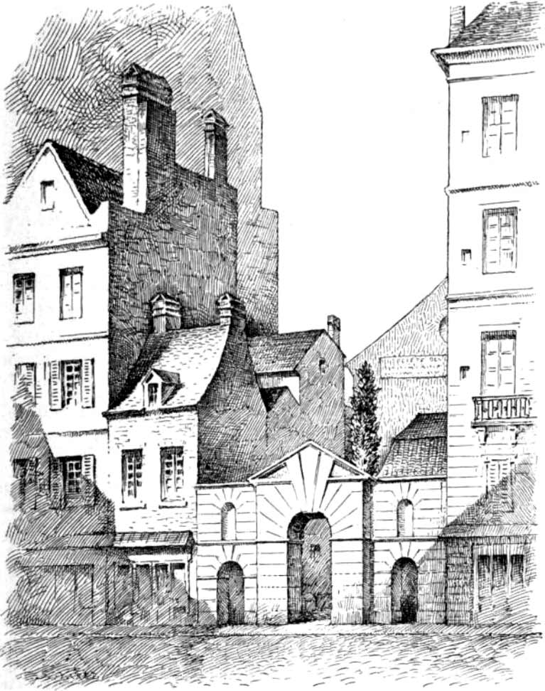 The Door of the Jacobin Club in the Saint-Honoré Street, Paris, France.